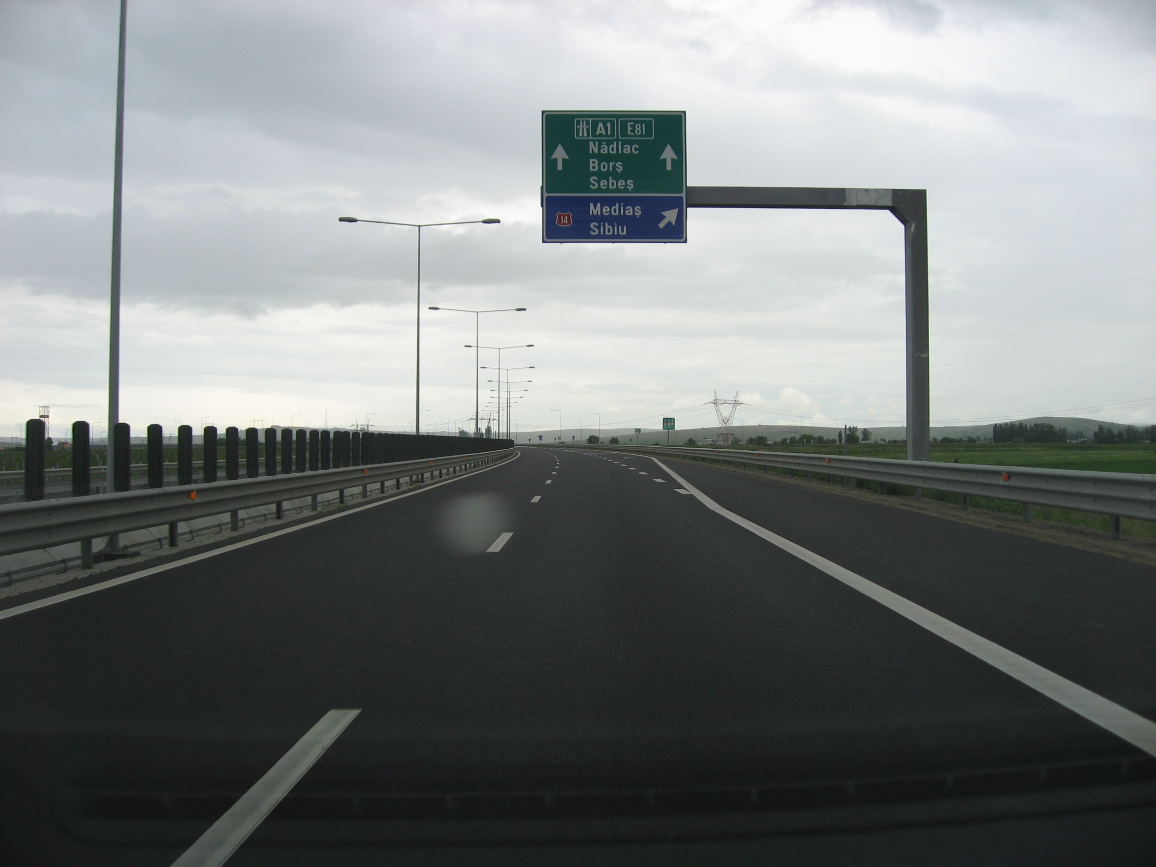 The A1 motorway near Sibiu, Romania; Șura Mare exit twoards Mediaș